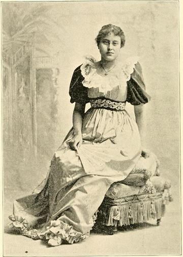 Mary Huntington Morgan